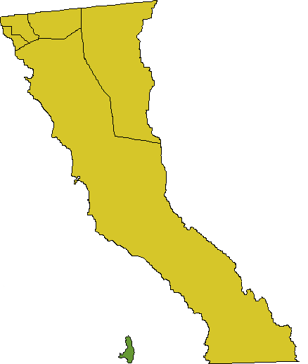 Location map of Isla de Cedros—Cedros Island — in southwestern Baja California state, México. Within the Category:Municipality of Ensenada, west of the Vizcaino peninsula in the Pacific Ocean.